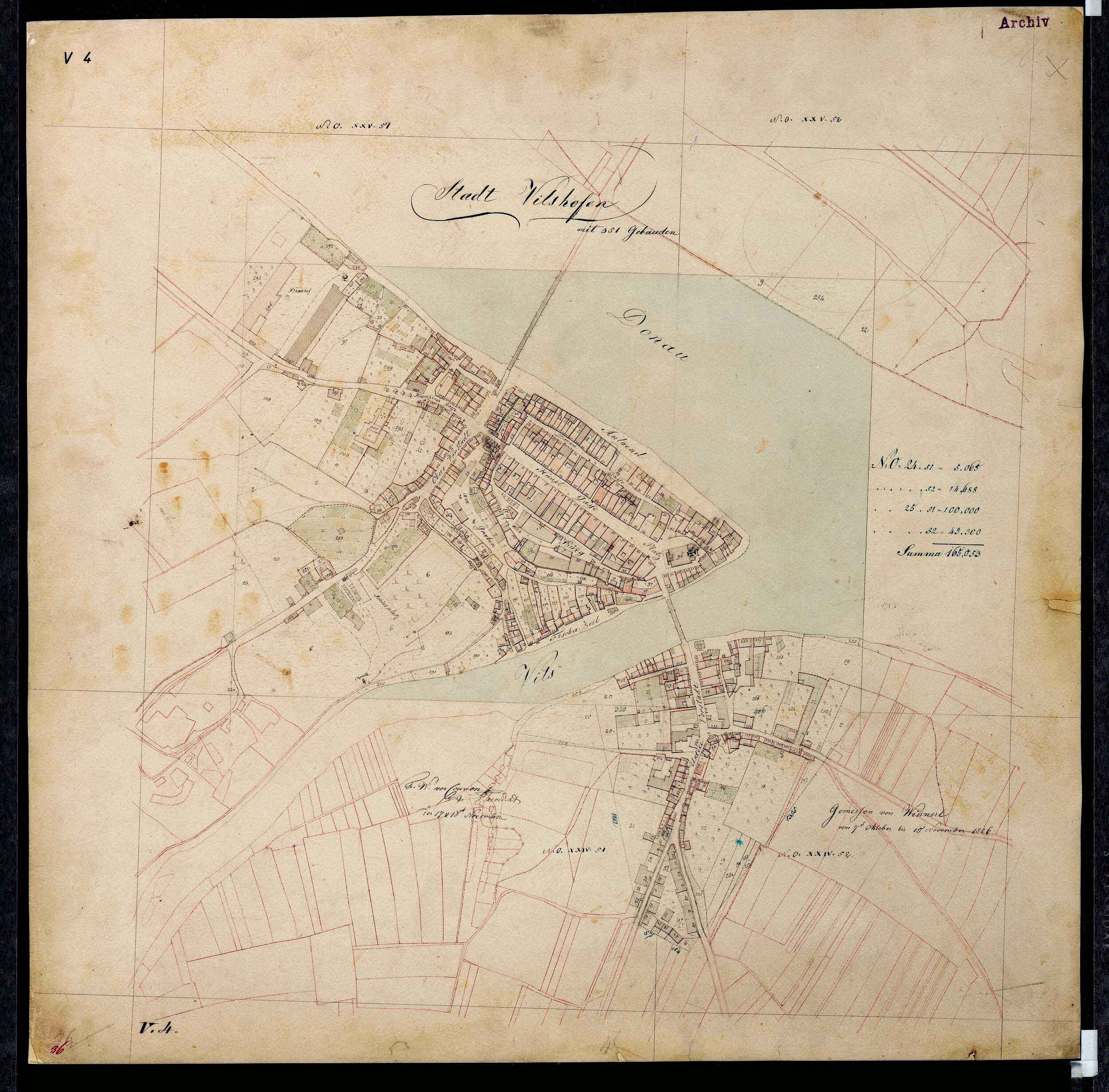 Old map of Vilshofen an der Donau